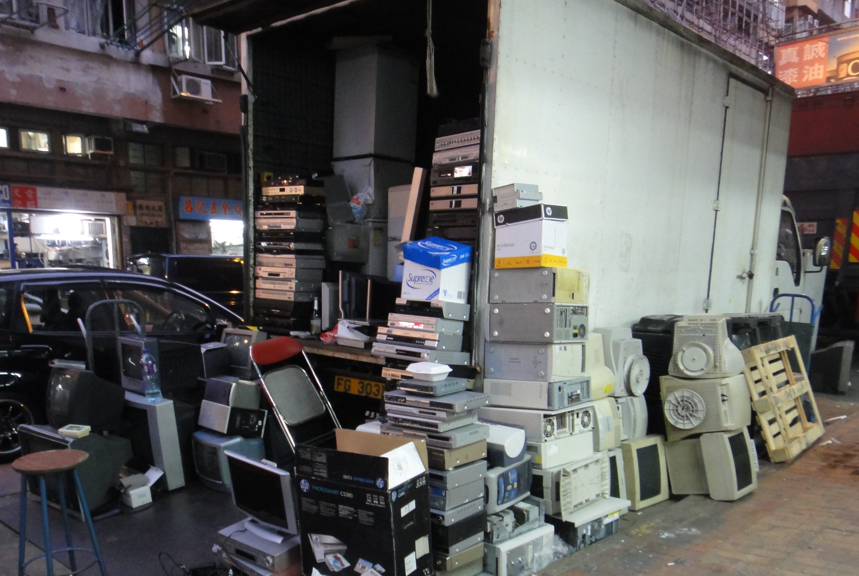 Street Market in Sham Shui Po